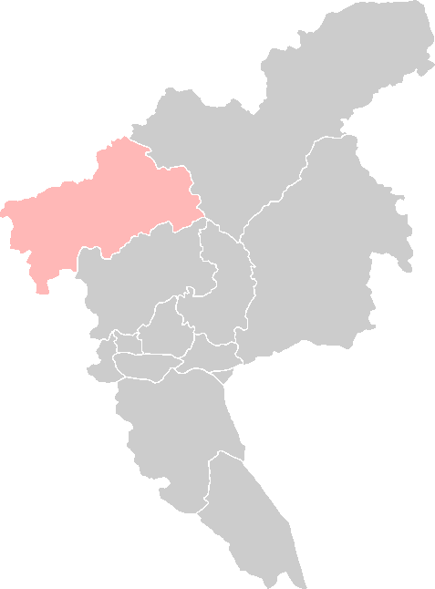 A Blank Map of Guangzhou Map